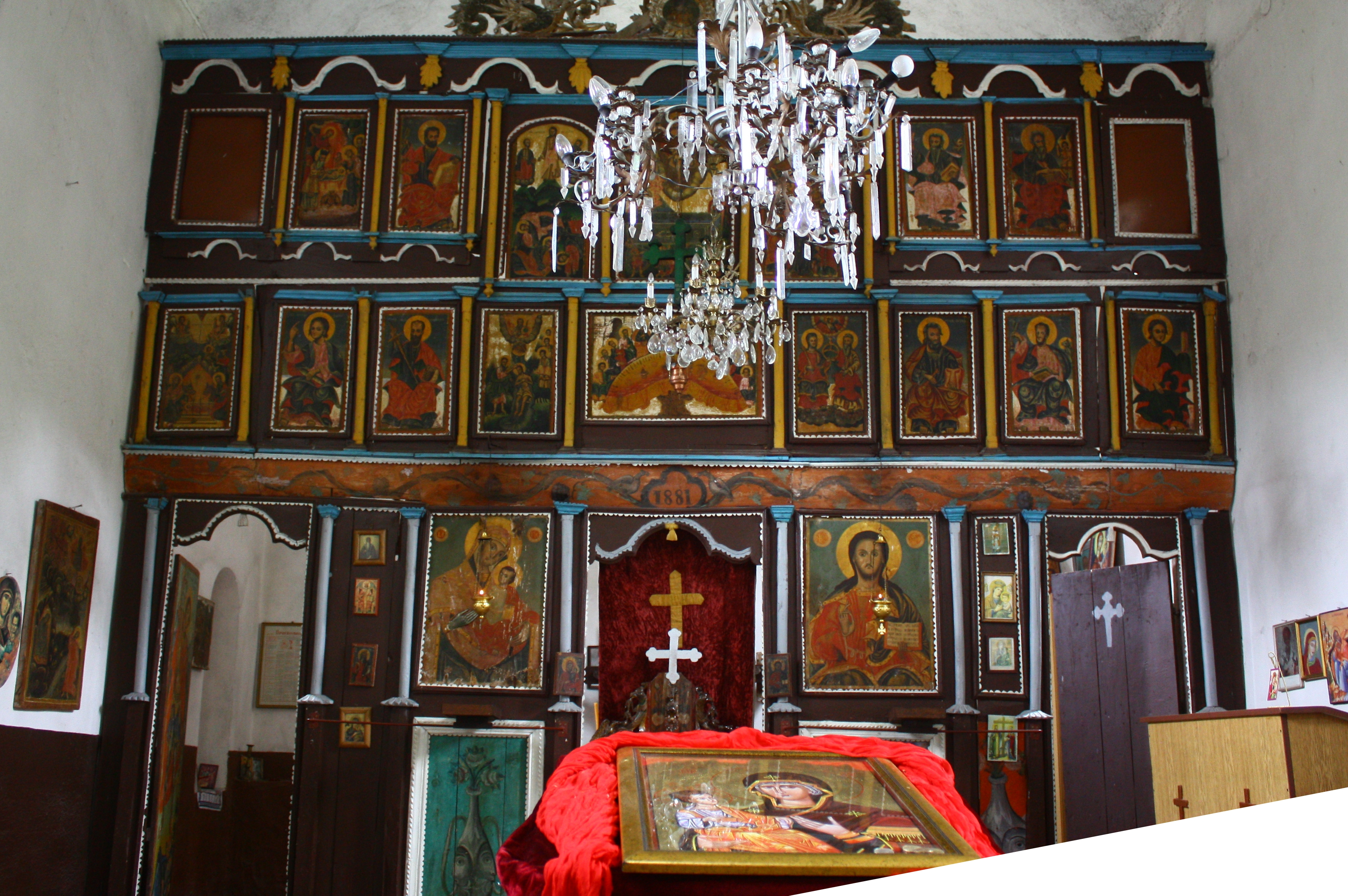 Nativity of the Theotokos Church in Ǵurište Monastery, Macedonia This image is uploaded as part of the picture contest Wiki Loves Cultural Heritage in Macedonia 2013. English | македонски | +/−